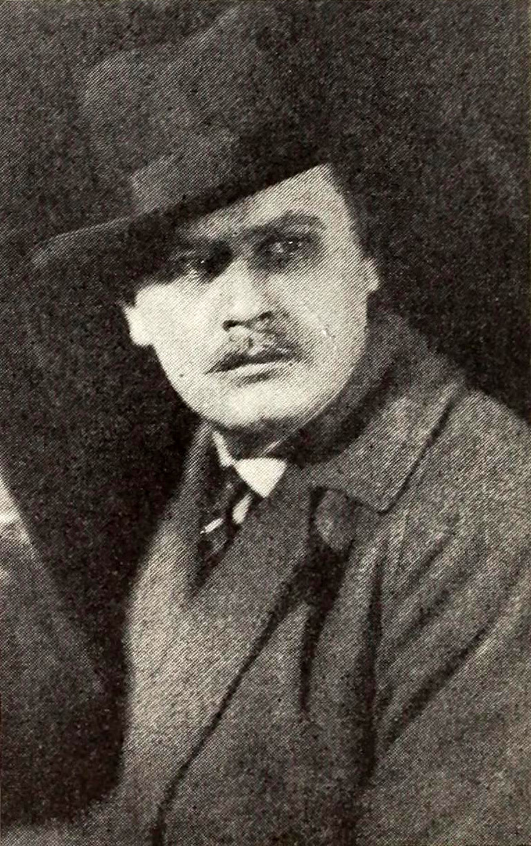 Promotional photo of Alan Hale